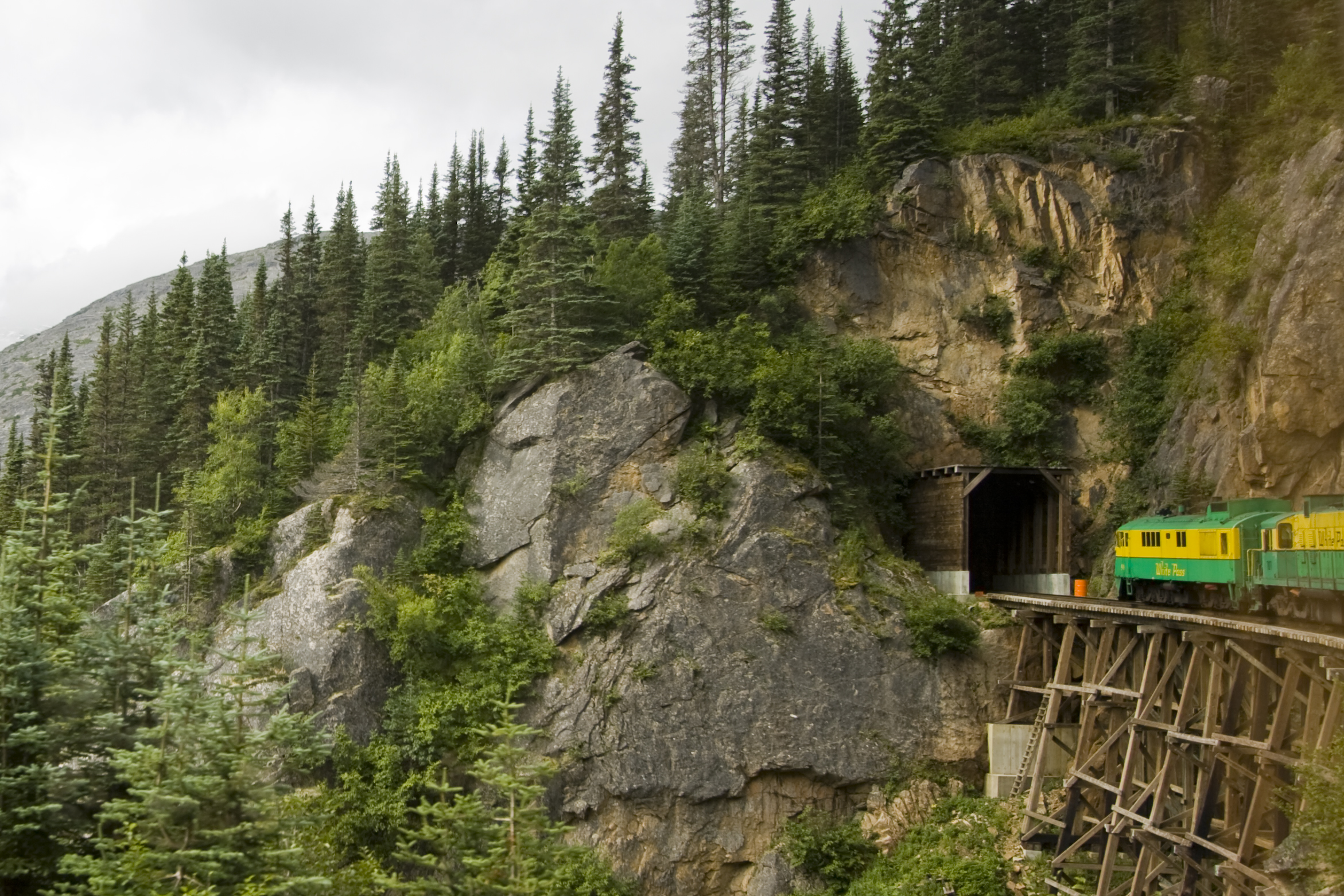 Skagway-Hoonah-Angoon Census Area, In to the Tunnel